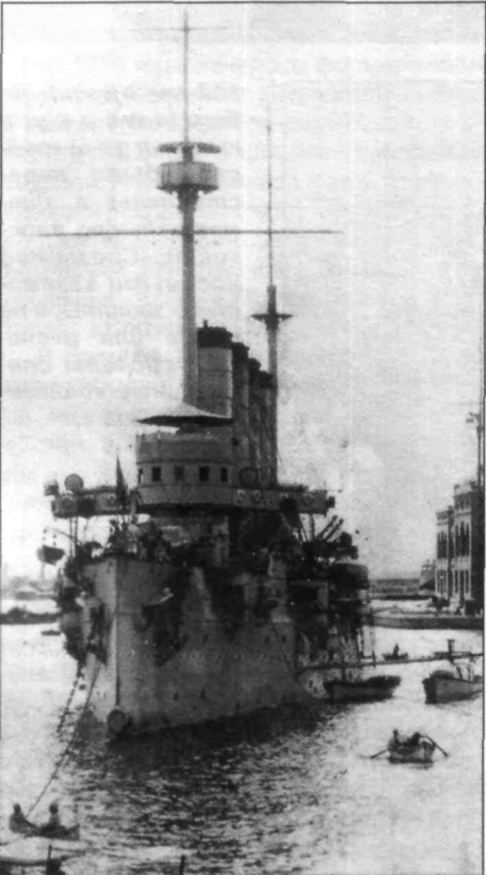 Imperial Russian cruiser Vaiag at Port Said, 7 September 1916.